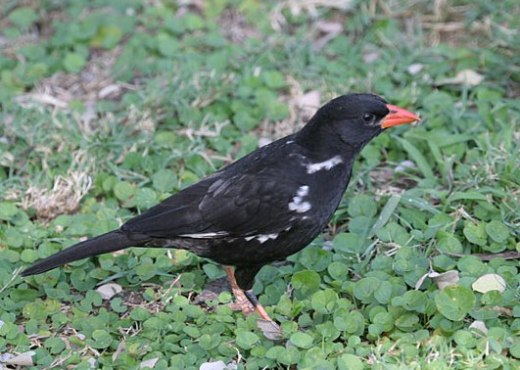 Red-billed Buffalo Weaver (Bubalornis niger) in Kruger National Park